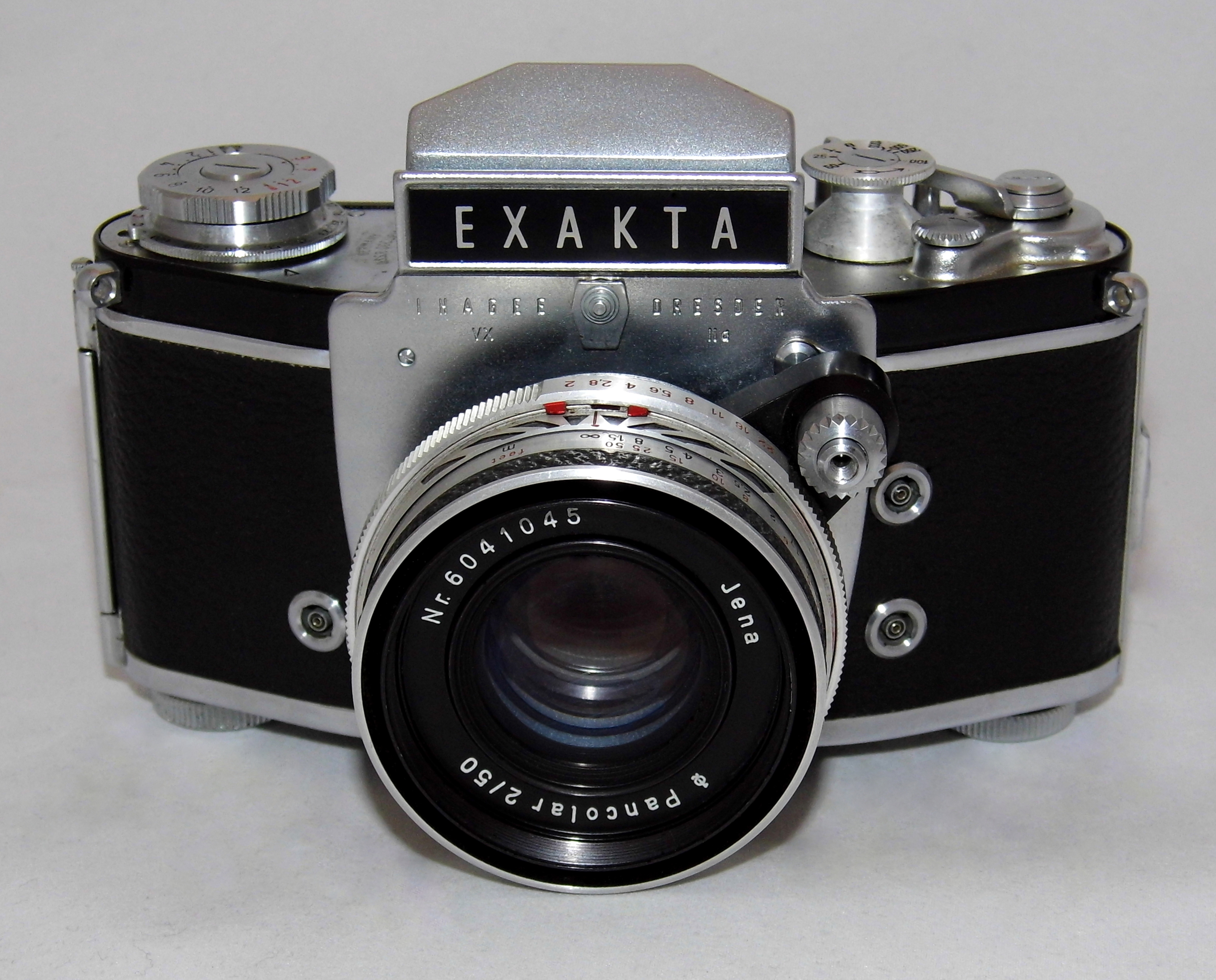 Auction Item 201 Camera & Lens (3 of 3 Photos) - To be auctioned by Cledis Estes Auctions II in Medina, Ohio.